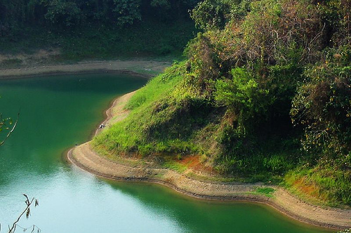 Kaptai lake is the largest lake in Bangladesh. The beauty of Kaptai is everchanging. It changes every month. I had the opportunity to visit in two different seasons. Its awesome. In summer the water level goes down and the hills appear large... in monsoon... its full of water.